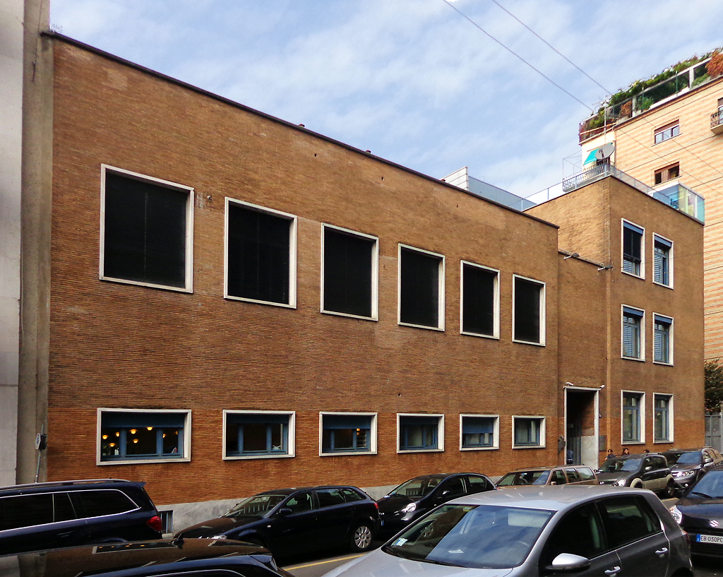 Milan, building of the Swiss School of Milan on Andrea Appiani 21, built in 1938-1939 as part of a project of A. Lucchini, A. Majocchi and G. Romano.